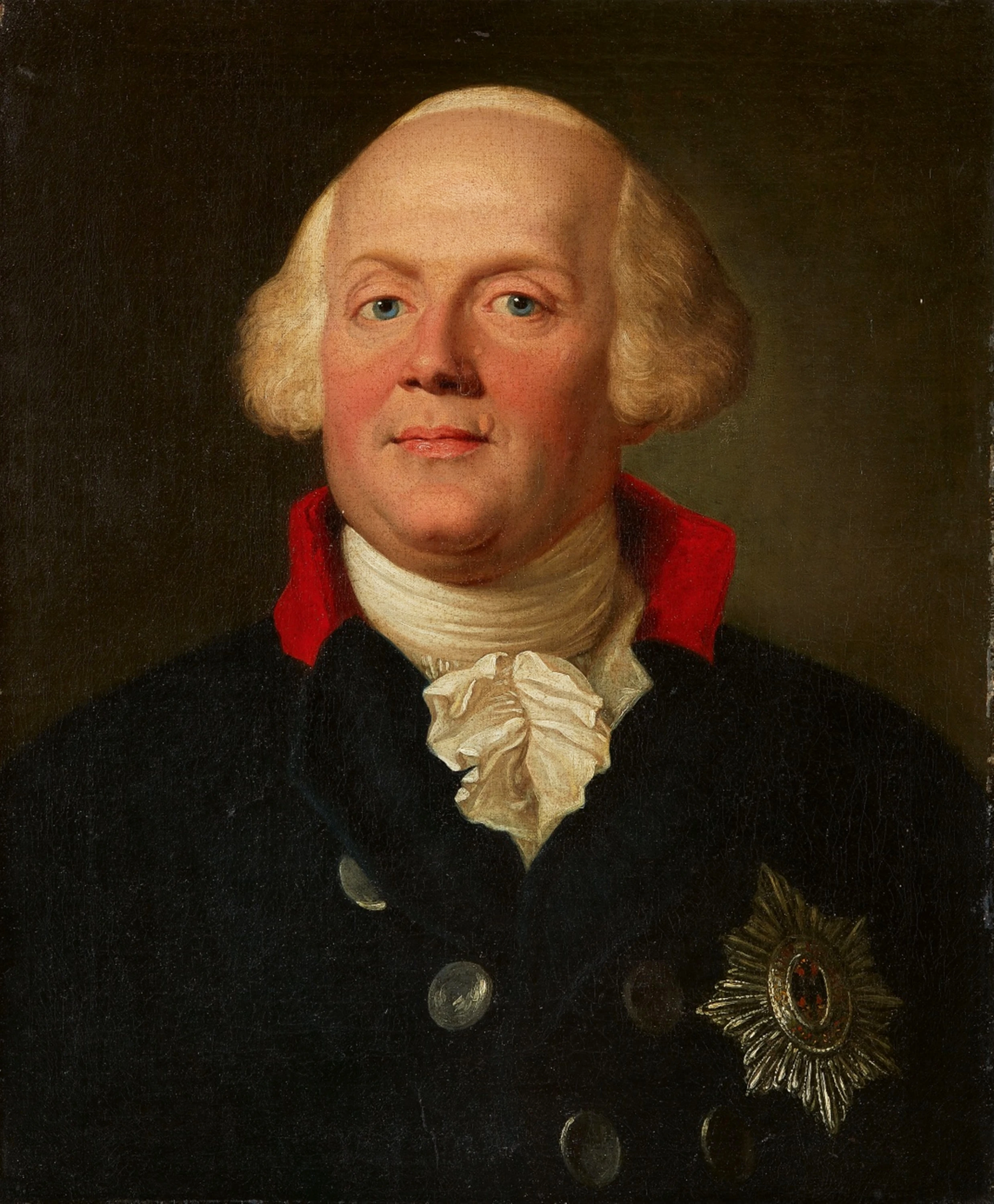 Portrait of Friedrich Wilhelm II oil on canvasmedium QS:P186,Q296955;P186,Q12321255,P518,Q861259 Height: 48 cm (18.8 in); Width: 38 cm (14.9 in) dimensions QS:P2048,48U174728;P2049,38U174728